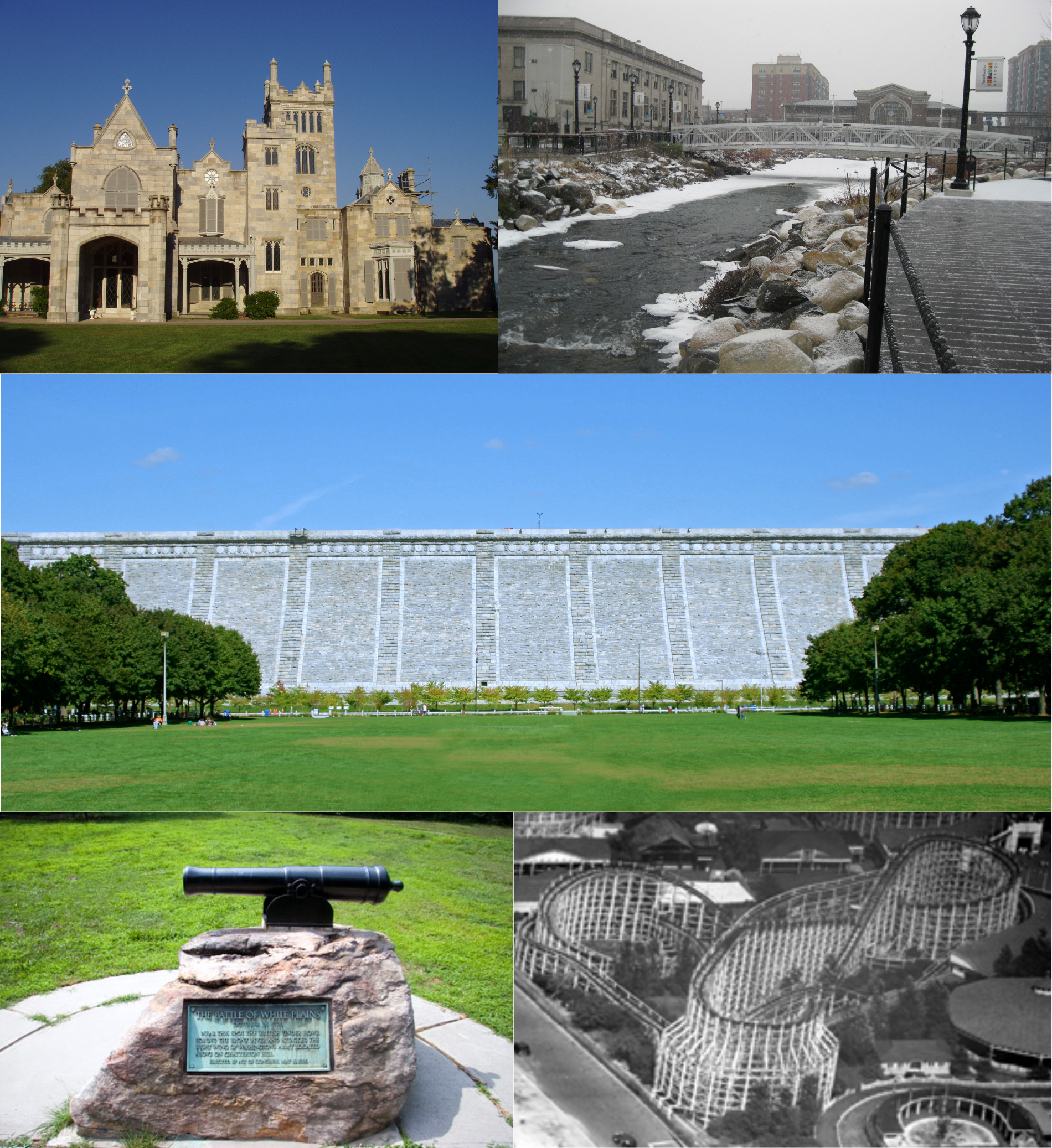 Montage of photos of Westchester County Top left: Lyndhurst mansion (Tarrytown, NY) Top right: Saw Mill River in Getty Square (Yonkers, NY) Middle: Kensico Dam (Valhalla, NY) Bottom left: Battle of White Plains memorial (White Plains, NY) Bottom right: Playland Amusement Park (Rye, NY)